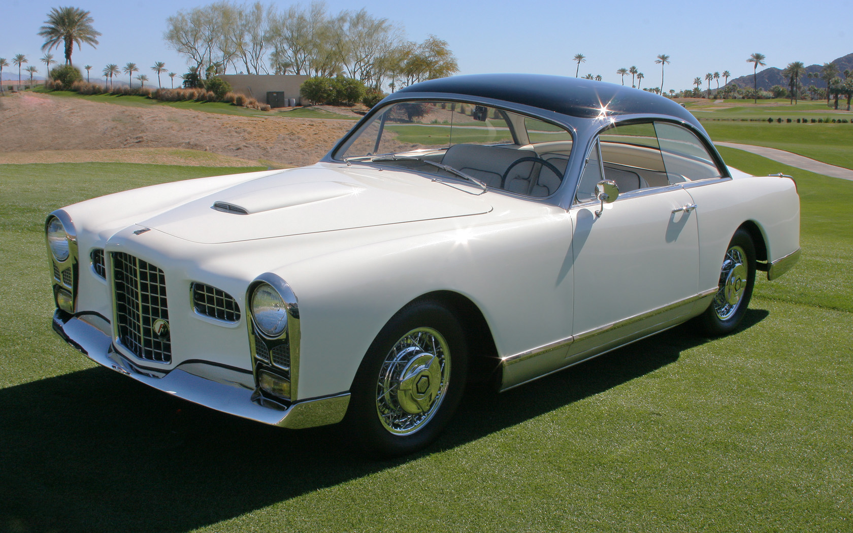 1955 Facel Vega FV1 at the 2011 Desert Classic, La Quinta, CA